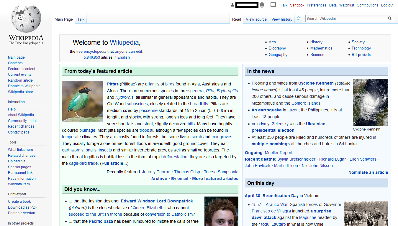 Screenshot of the English Wikipedia homepage, as of April 2019.